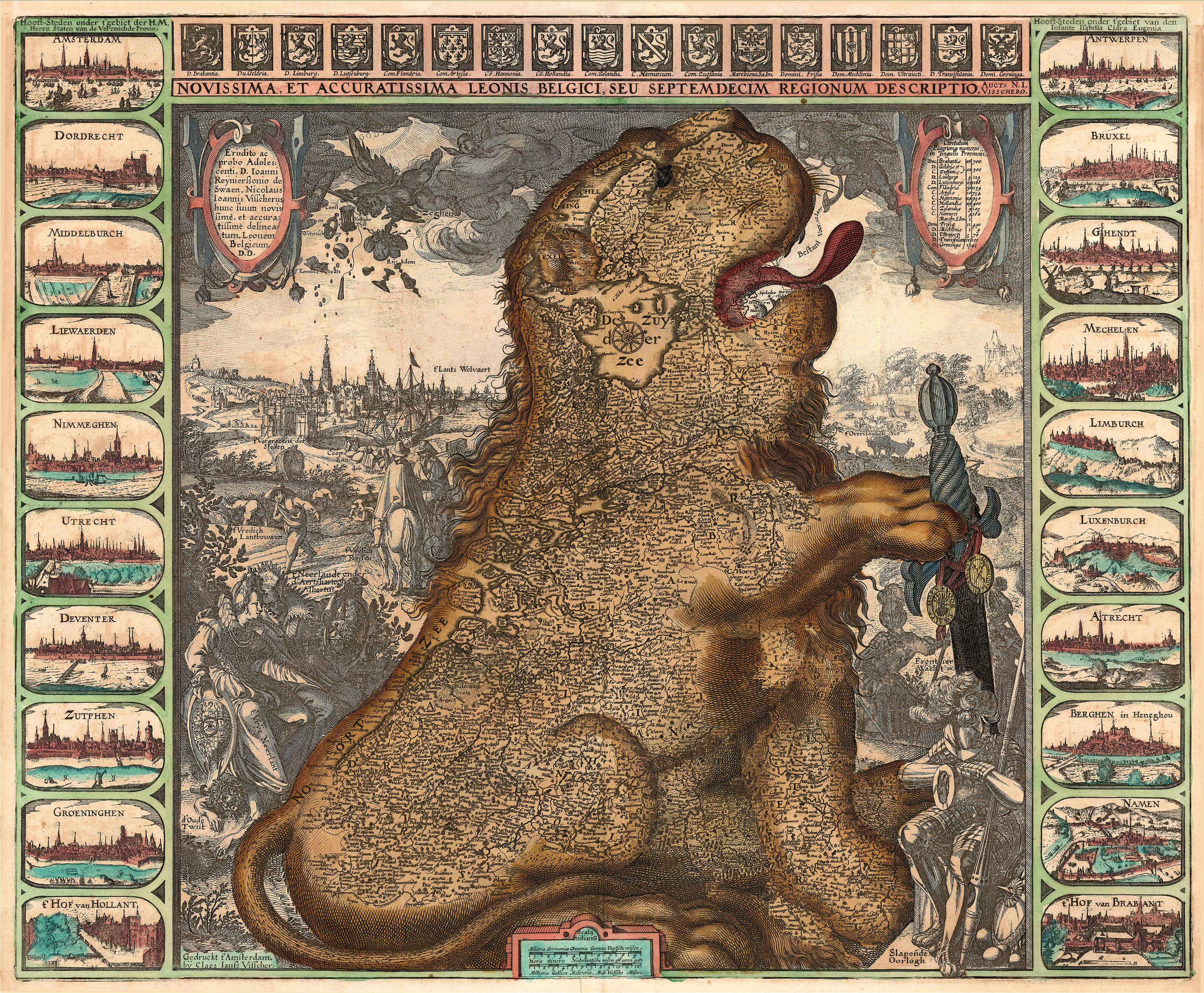 Belgian Lion or Dutch Lion